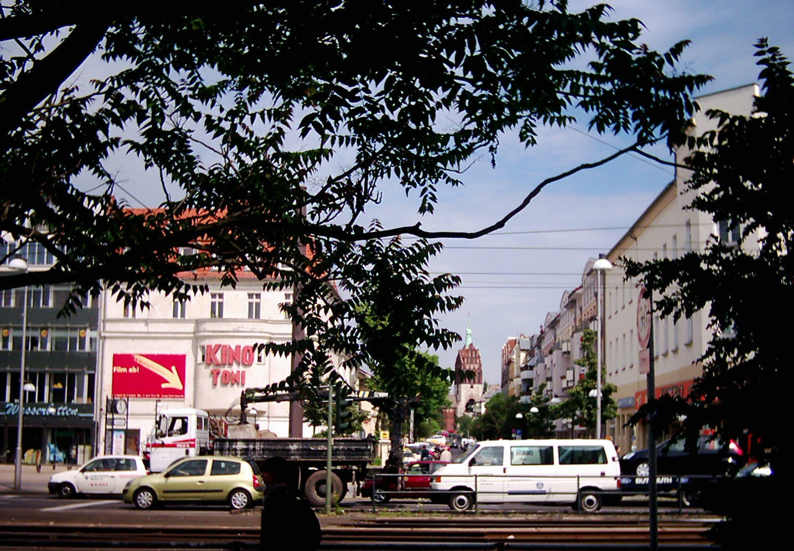 Kinotheatre "Toni" at Antonplatz in Berlin-Weißensee